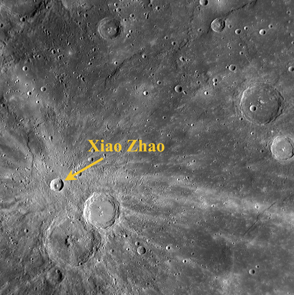 Image Mission Elapsed Time (MET): 108828473 Instrument: Narrow Angle Camera (NAC) of the Mercury Dual Imaging System (MDIS) Resolution: 500 meter/pixel (0.3 miles/pixel) Scale: Xiao Zhao crater is 23 kilometers (14 miles) in diameter Spacecraft Altitude: 19,760 kilometers (12,280 miles) Of Interest: Recently named after the 12th century Chinese artist, Xiao Zhao crater on the central left side of this image is small in comparison with many other craters on Mercury and even with many other craters in this scene. However, Xiao Zhao's long bright rays make it a readily visible feature. The fresh, bright rays, which were created by material ejected outward during the impact event that formed the crater, indicate that Xiao Zhao is a relatively young crater on Mercury's surface.